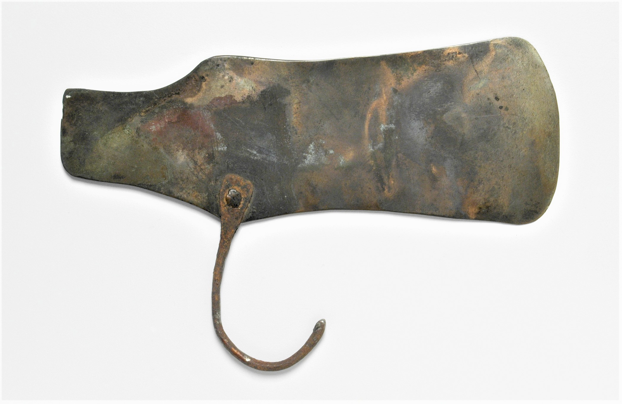 Egypt, New Kingdom (1569 - 1081 BCE) or later Tools and Equipment; blades Bronze Length: 6 7/8 in. (17.5 cm); Width: 4 3/8 in. (11.1 cm) Gift of Frank J. and Victoria K. Fertitta (M.80.198.24) Egyptian Art